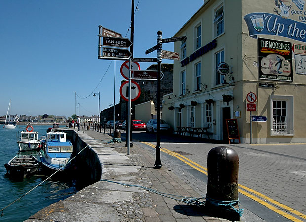 Dungarvan